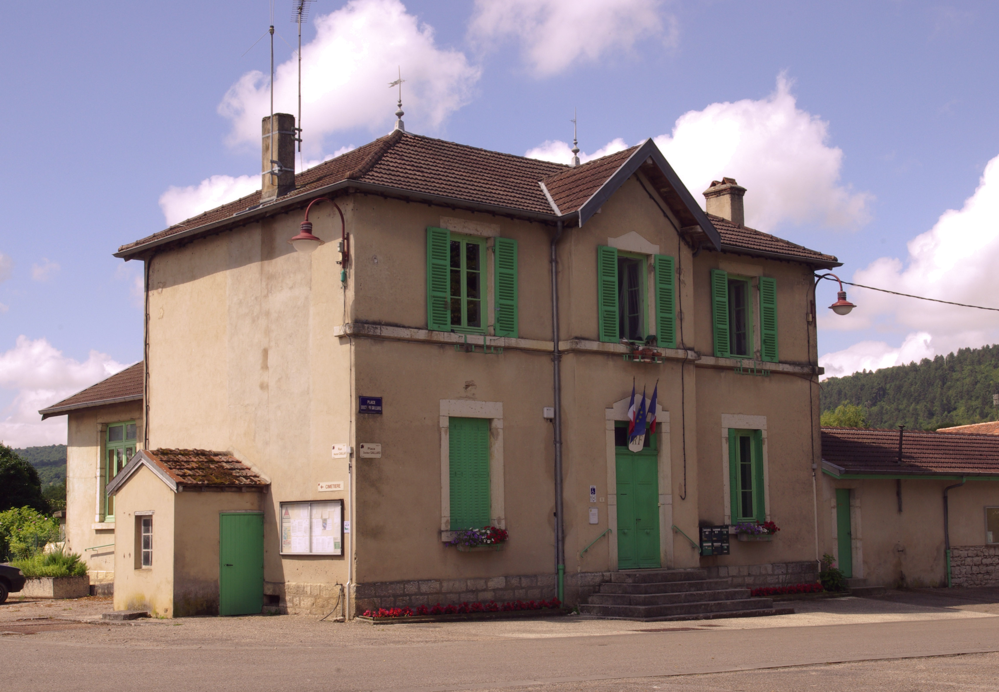 City haal of Drom